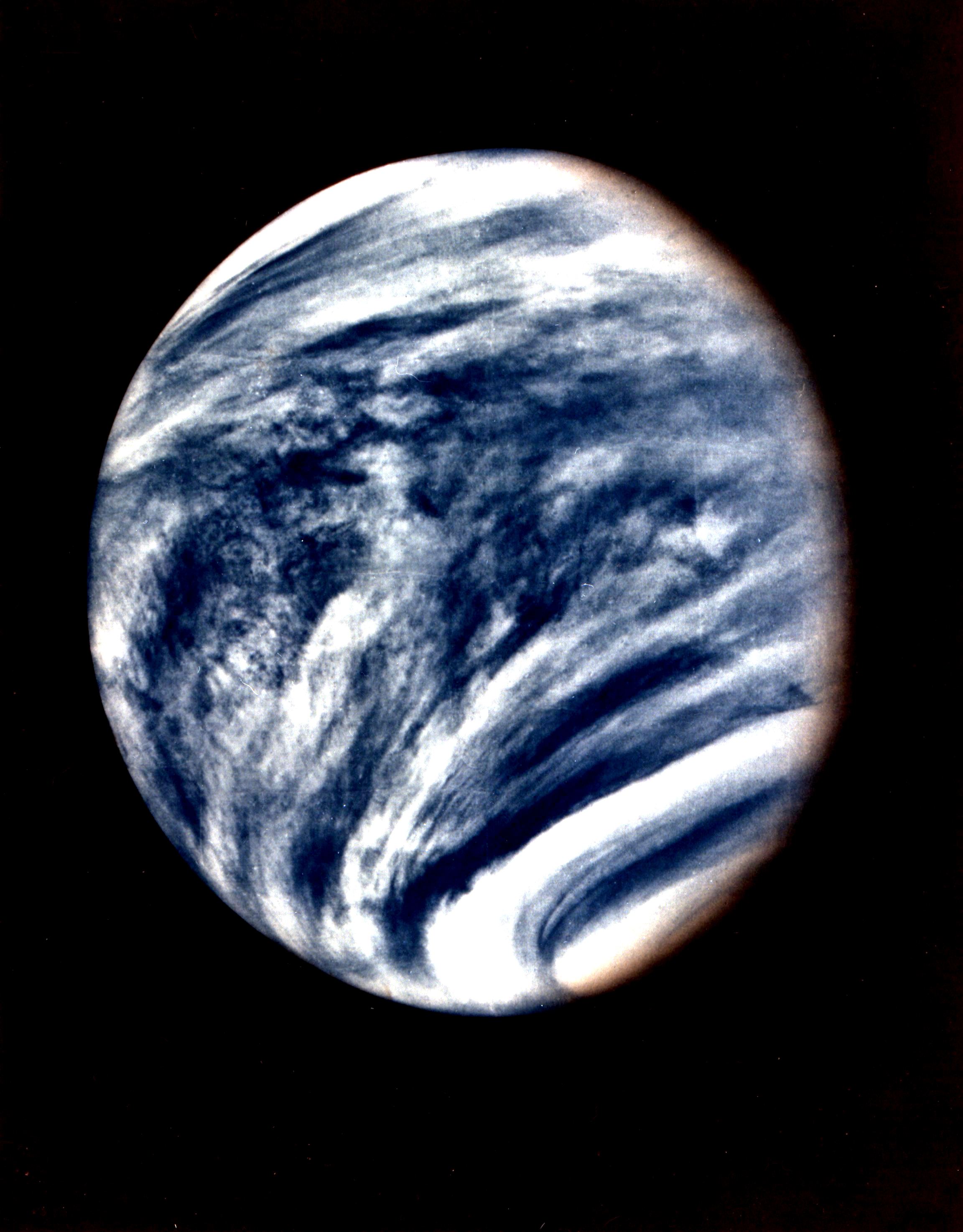 Using an ultraviolet filter of imaging system, the photo has been color-enhanced to simulate Venus's natural color as the human eye would see it. Venus is perpetually blanketed by a thick veil of clouds high in carbon dioxide and its surface temperature approaches 900 degrees fahrenheit. Launched on 11/3/73 atop an Atlas-Centaur rocket, Mariner 10 flew by Venus on 2/5/74.